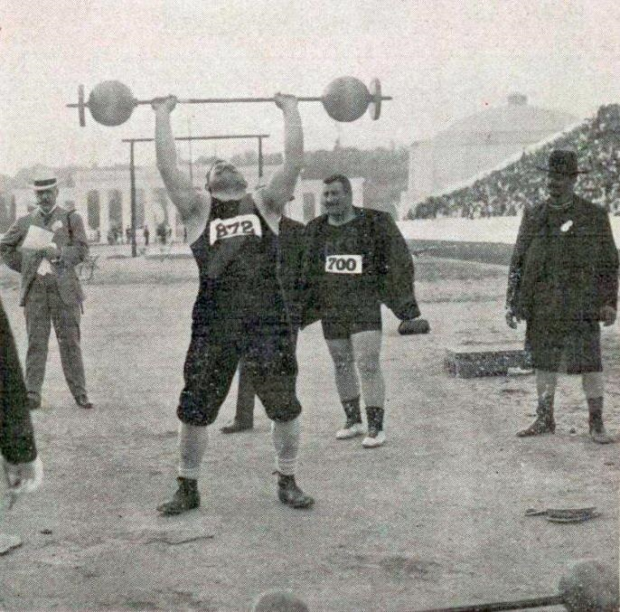 The Olympic games at Athens, 1906 (1906) Author: Sullivan, James Edward, 1862-1914 Subject: Olympic Games (1906 : Athens, Greece) Publisher: New York, American Sports Publishing Company Language: English Call number: 7740541 Digitizing sponsor: Sloan Foundation Book contributor: The Library of Congress Collection: americana [Open Library icon] This book has an editable web page on Open Library.